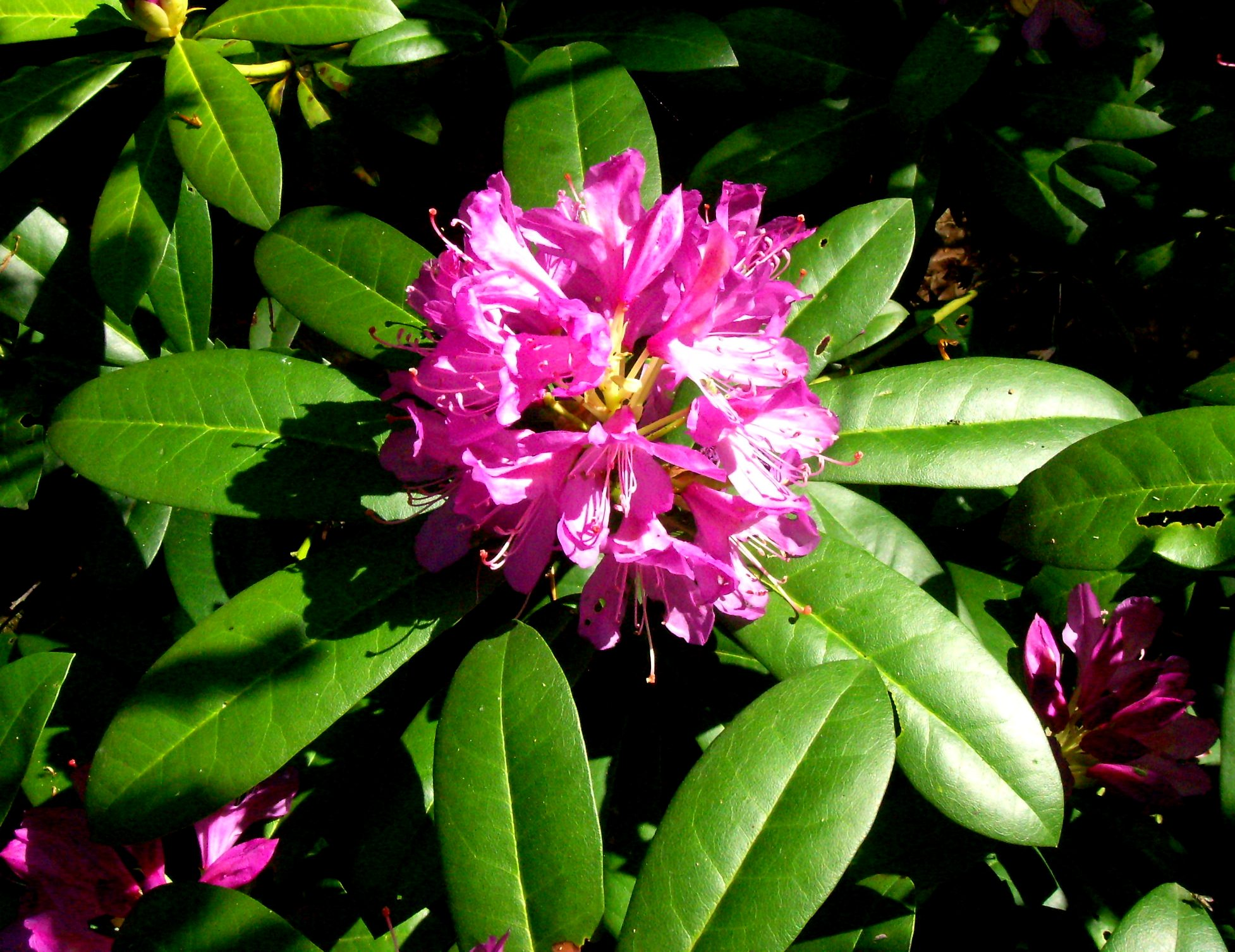 Rhododendron Ponticum. Picture taken near Kosti village, Strandja mountains, Bulgaria.